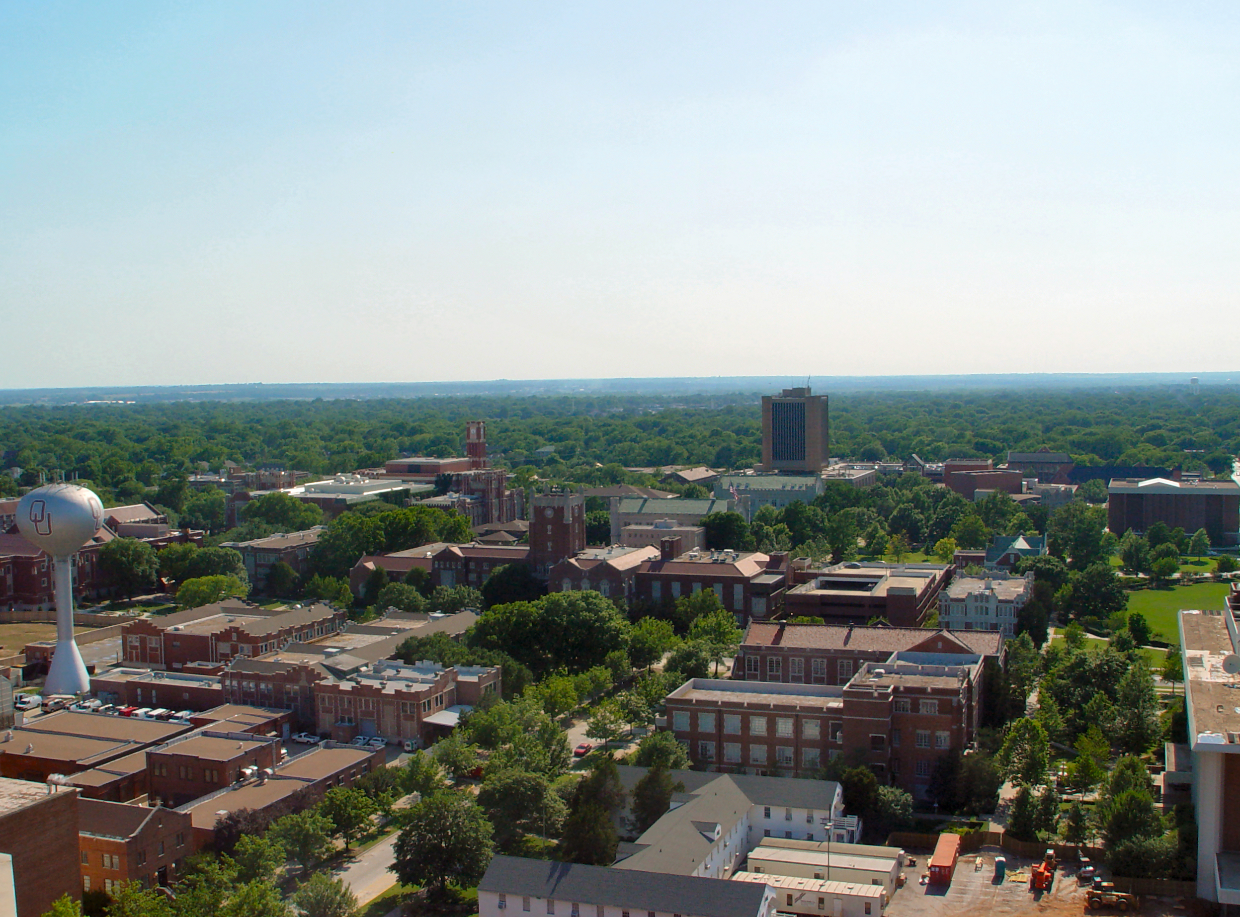 University of Oklahoma main campus as seen from the roof of Sarkeys Energy Center